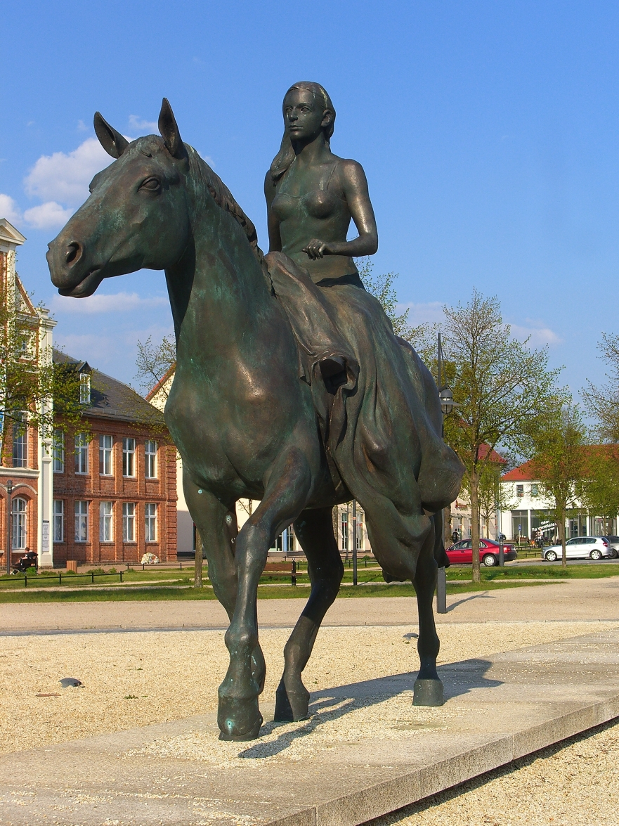 Memorial to Grand-duchness Alexandrine of Mecklenburg-Schwerin in Ludwigslust sculpted by Andreas Krämmer and Holger Lassen